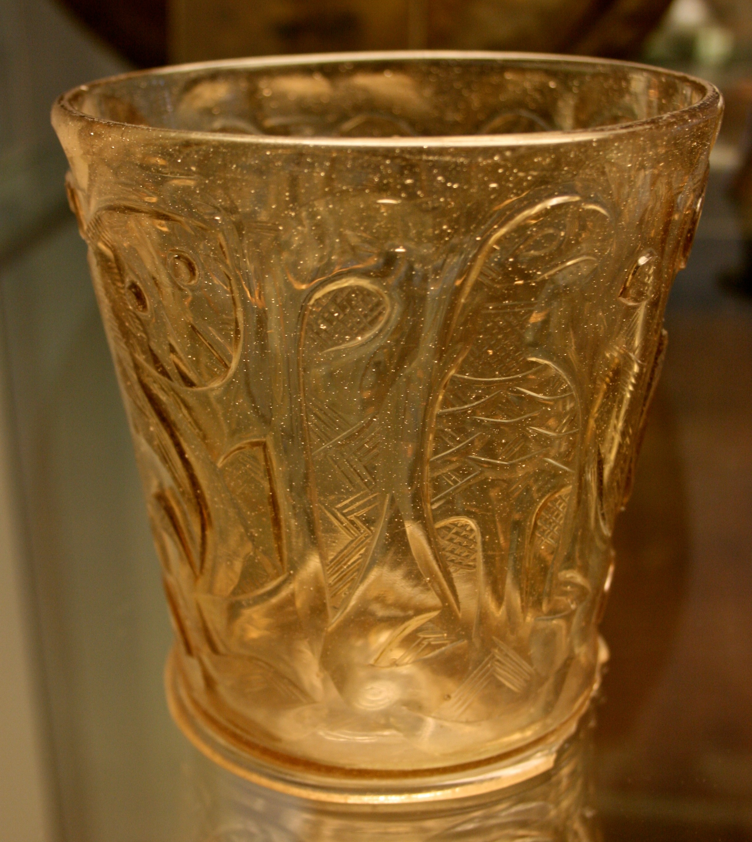 Hedwig glass beaker in the British Museum. 1559 4-14.1 (beaker); 1903 7-21 3 (fragment).